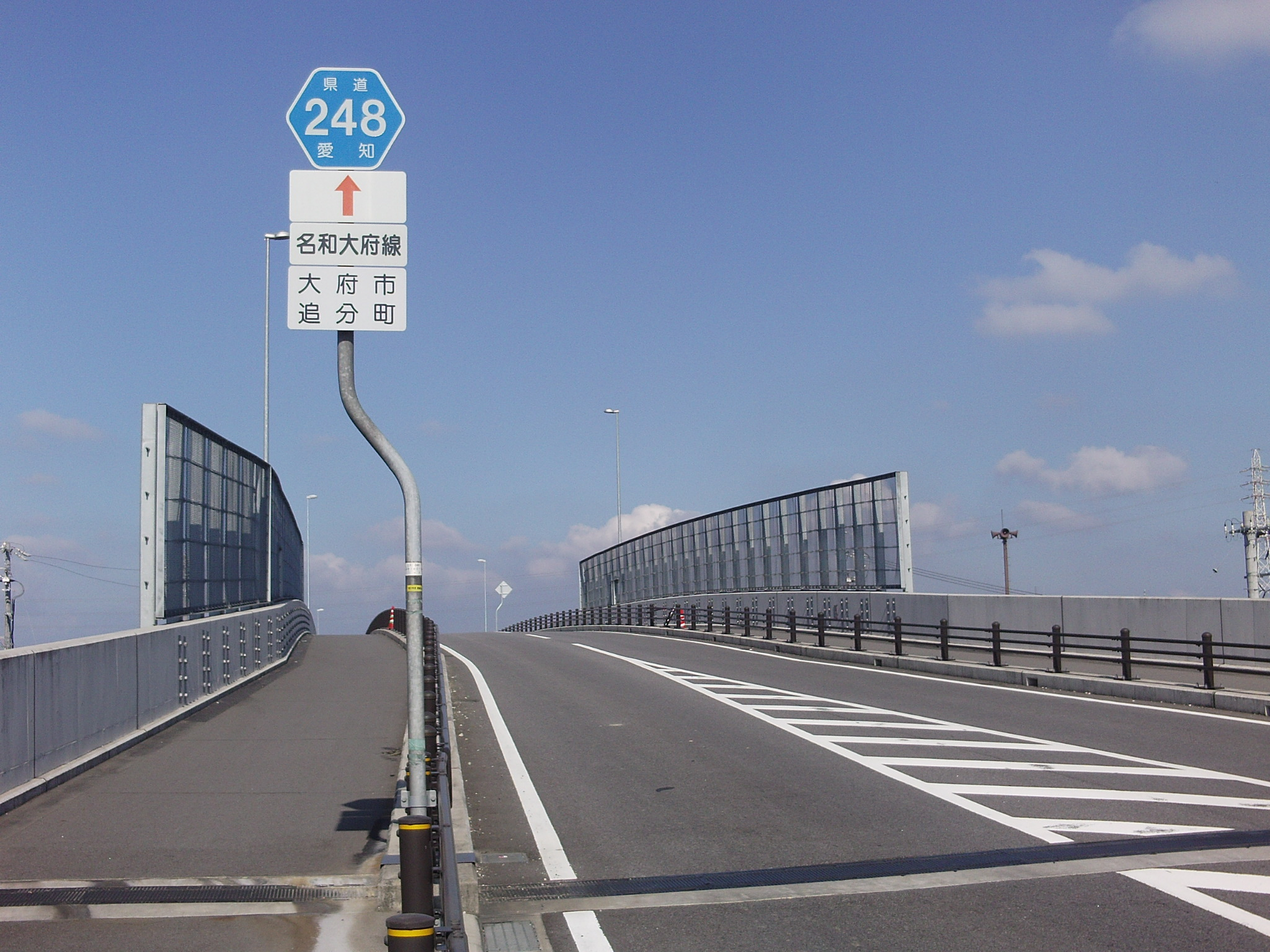 Aichi prefectural road No.248 in Oiwakecho, Obu, Aichi.